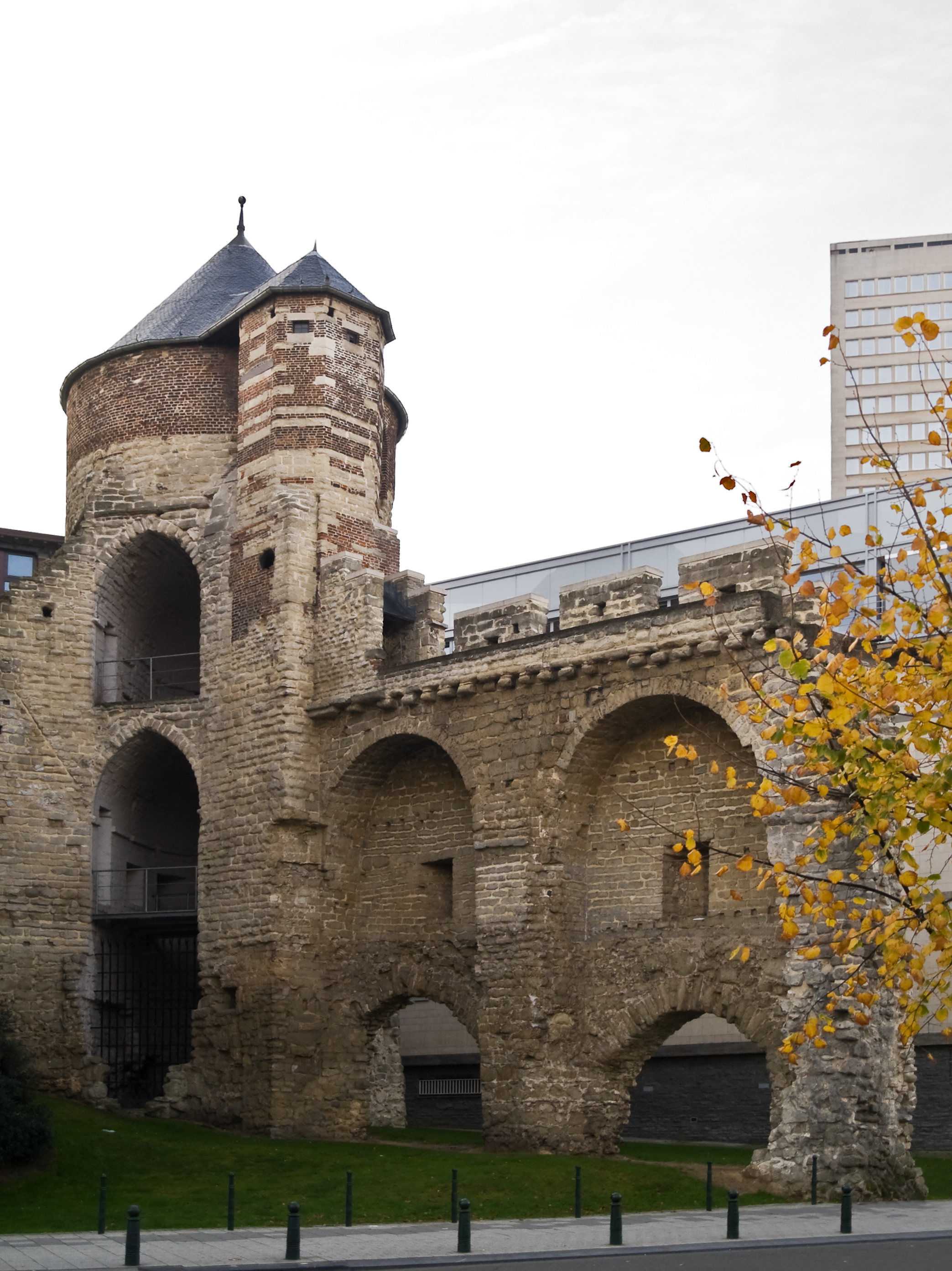 Brussels, Belgium : the Anneessens Tower (inside view). The Anneessens Tower, also called Tour d'angle, was part of the first walls of Brussels (13th-century).